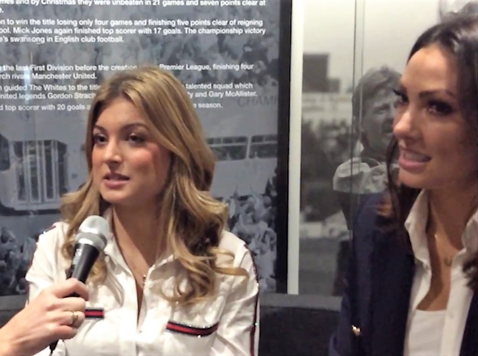 Impact of social media with Love Island stars A conference was held at Elland Road Stadium to discuss the impact of social media on schools. We spoke to former Love Island contestants Zara Holland and Sophie Gradon about their experiences.